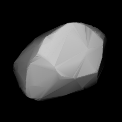 3D convex shape model of 856 Backlunda, computed using light curve inversion techniques. J. Hanuš, J. Ďurech, M. Brož, B. D. Warner (June 2011). "A study of asteroid pole-latitude distribution based on an extended set of shape models derived by the lightcurve inversion method". Astronomy and Astrophysics 530: A134. ISSN 0004-6361. arXiv